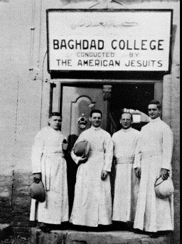 The four founders of Baghdad College came from four provinces: NE, NY, Calif, Chic